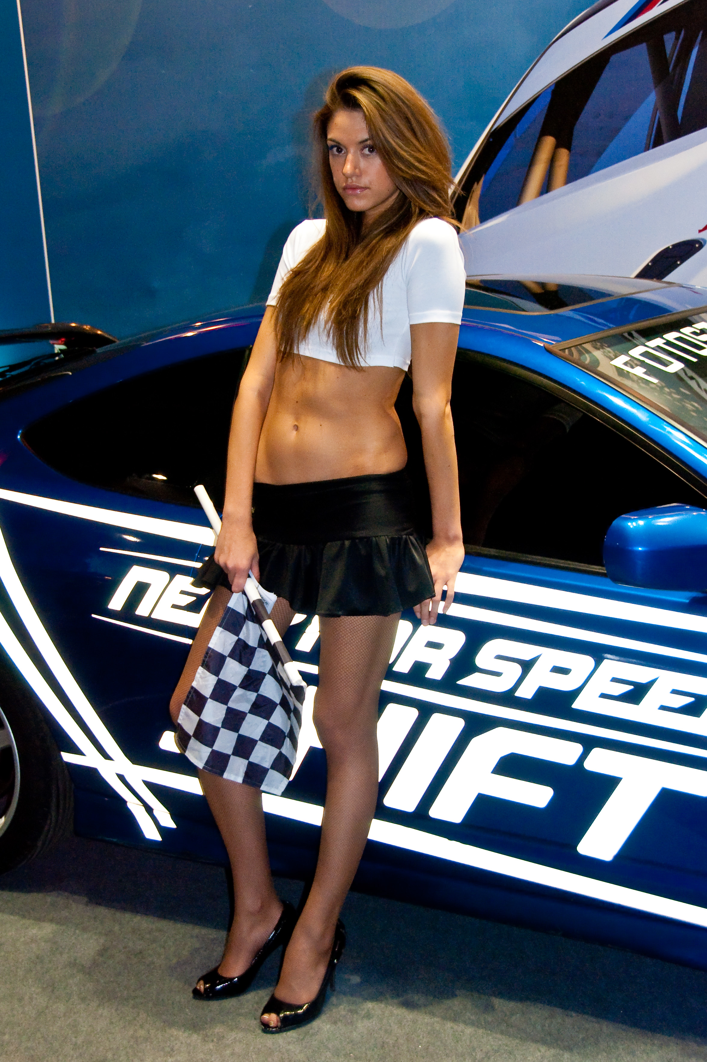 NFS Shift girl at Igromir 2009